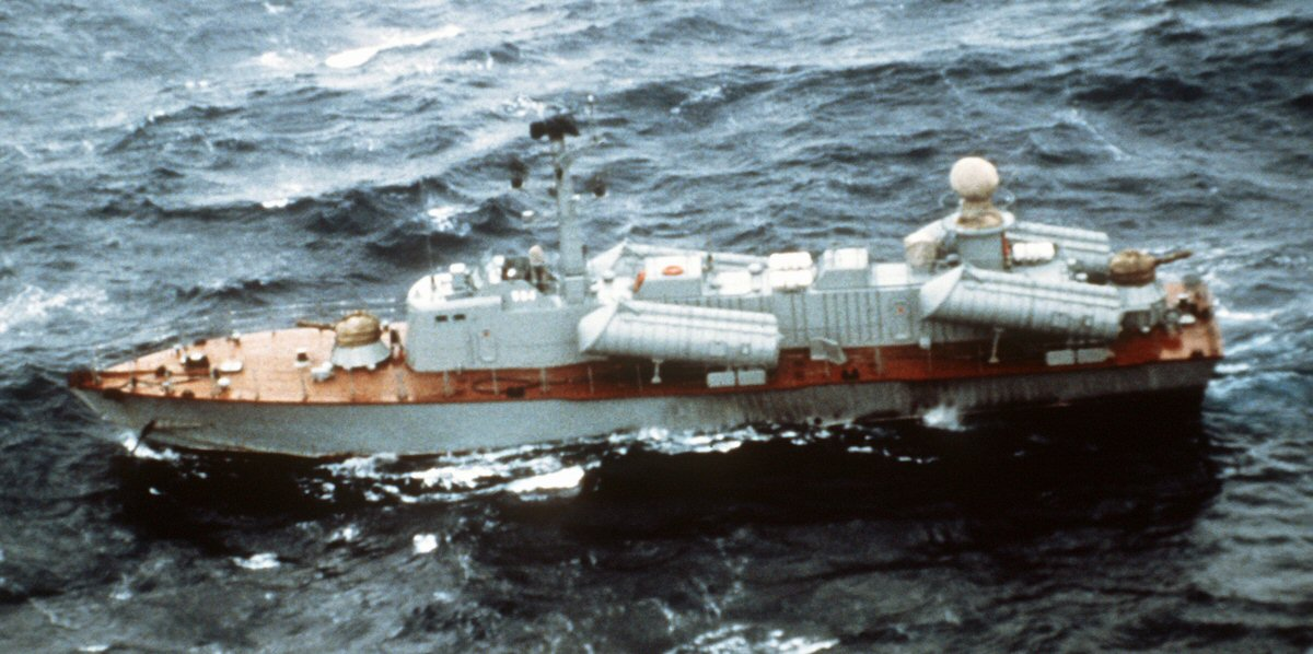 An aerial port beam view of a Soviet-made project 205-ER (NATO code Osa II class) missile attack boat underway.